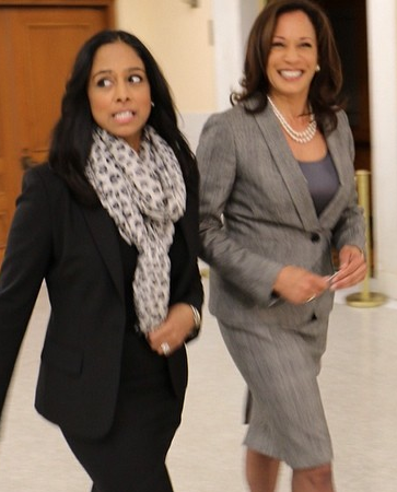 Maya Harris and Kamala Harris at SF City Hall.